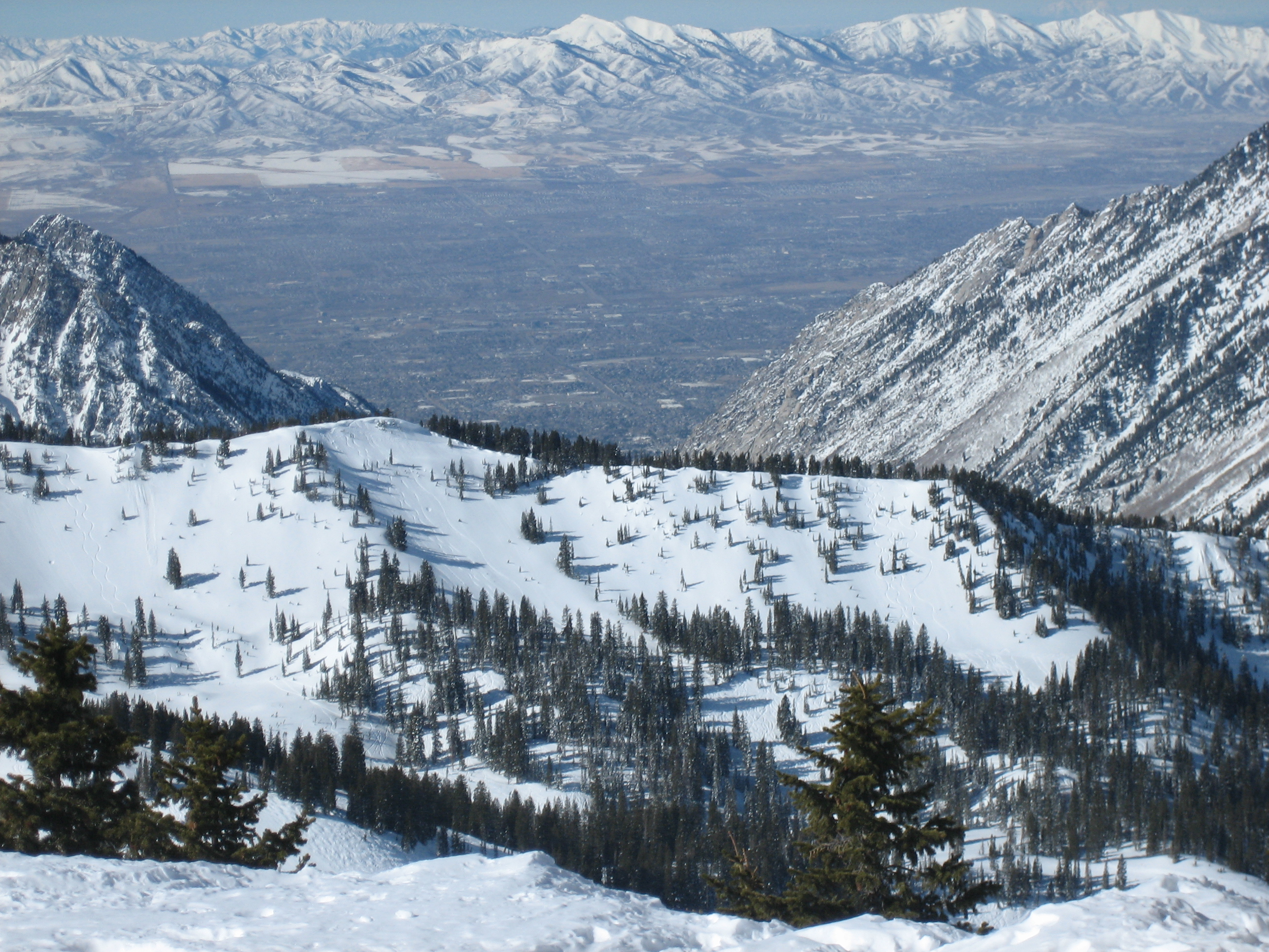 The Salt Lake Valley and Oquirrh Mountains (background) from Snowbird Ski Resort in the Wasatch Range